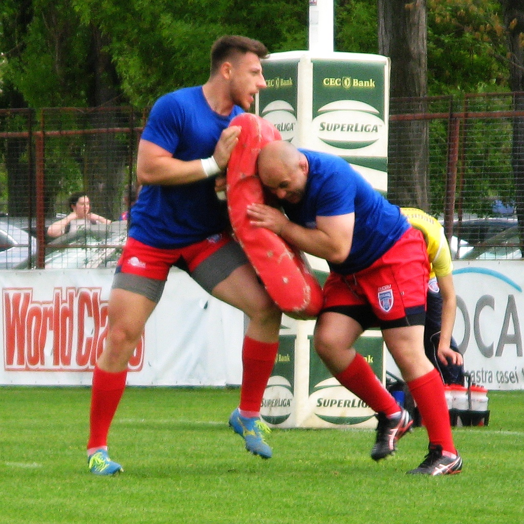 Romanian international rugby union football player, Dennis Perju (standing), from CSA Steaua București rugby club seen training before a match against Timișoara Saracens in Romanian Rugby SuperLiga in April 2017